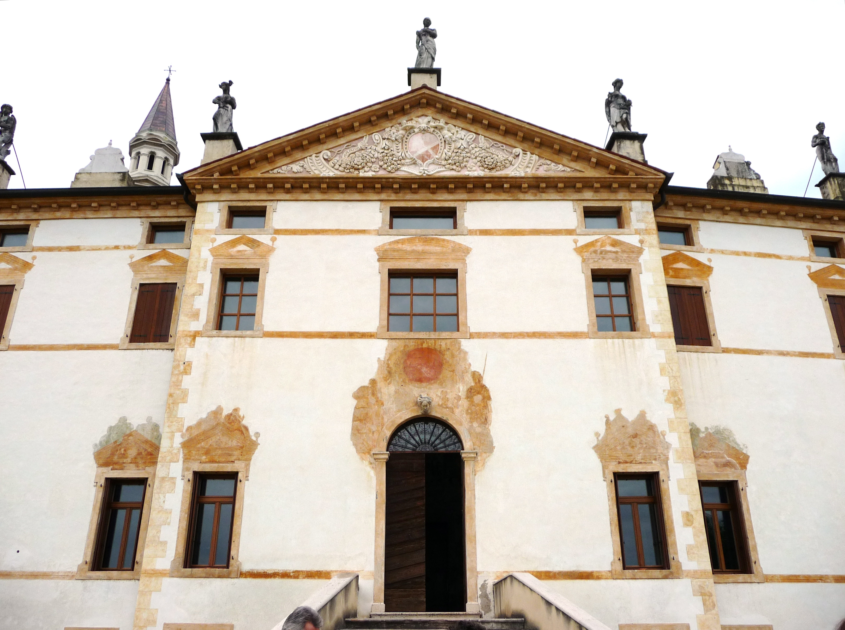 Villa Giusti Suman in Zugliano, province of Vicenza, Italy. Restored 1998.